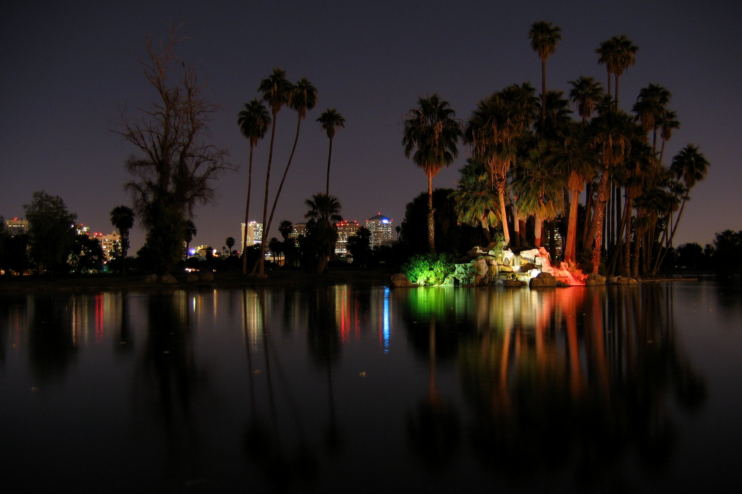 Illuminated palm trees reflecting in pond of Encanto Park. Located in Encanto, an Urban Village within the City of Phoenix. Credits Jonathan Boeke category:Images of Phoenix